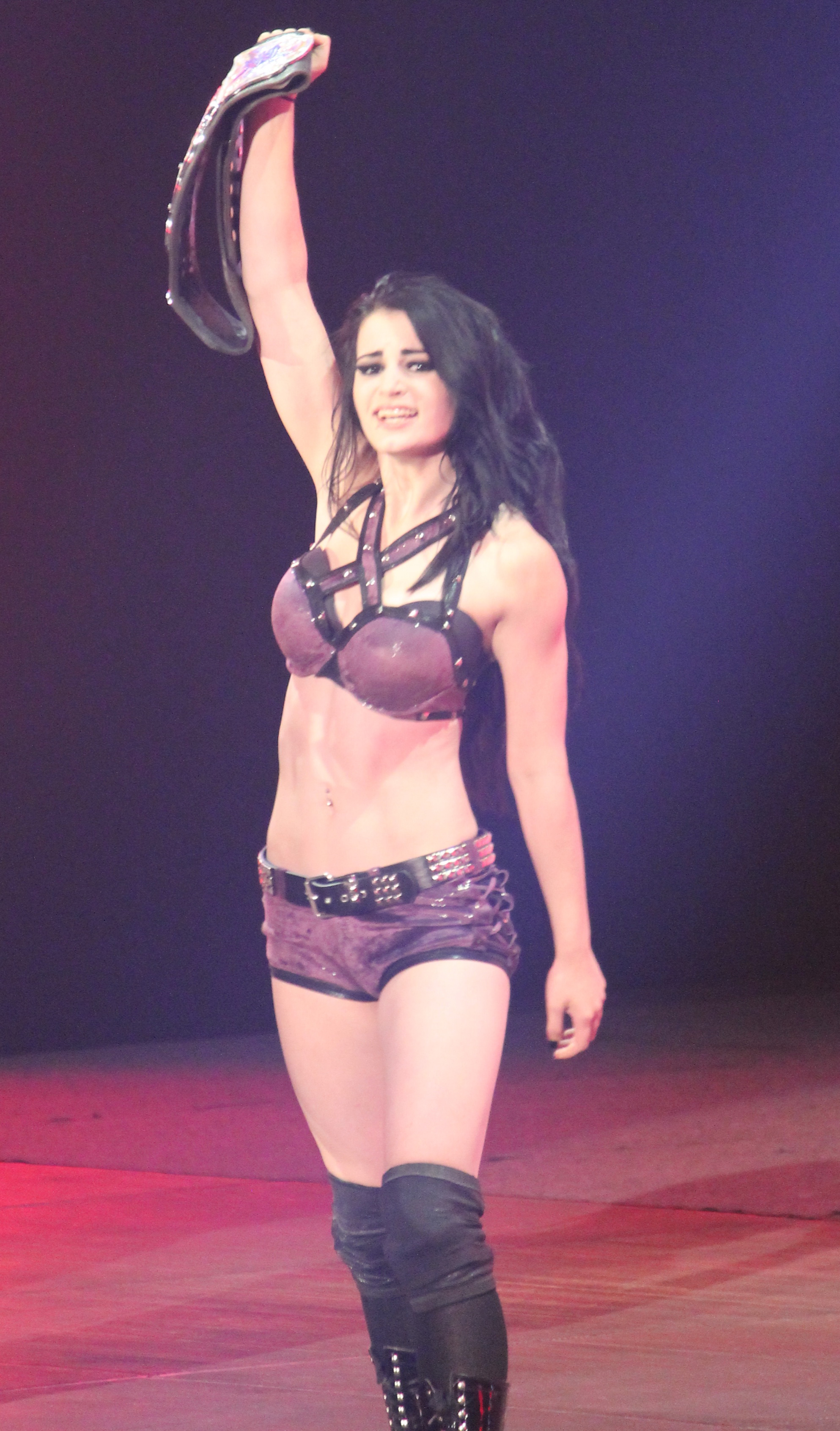 Paige after winning the WWE Divas Championship on the night of her Raw debut in New Orleans, LA. (April 7, 2014). Originally taken by Megan Elice Meadows, cropped for focus.